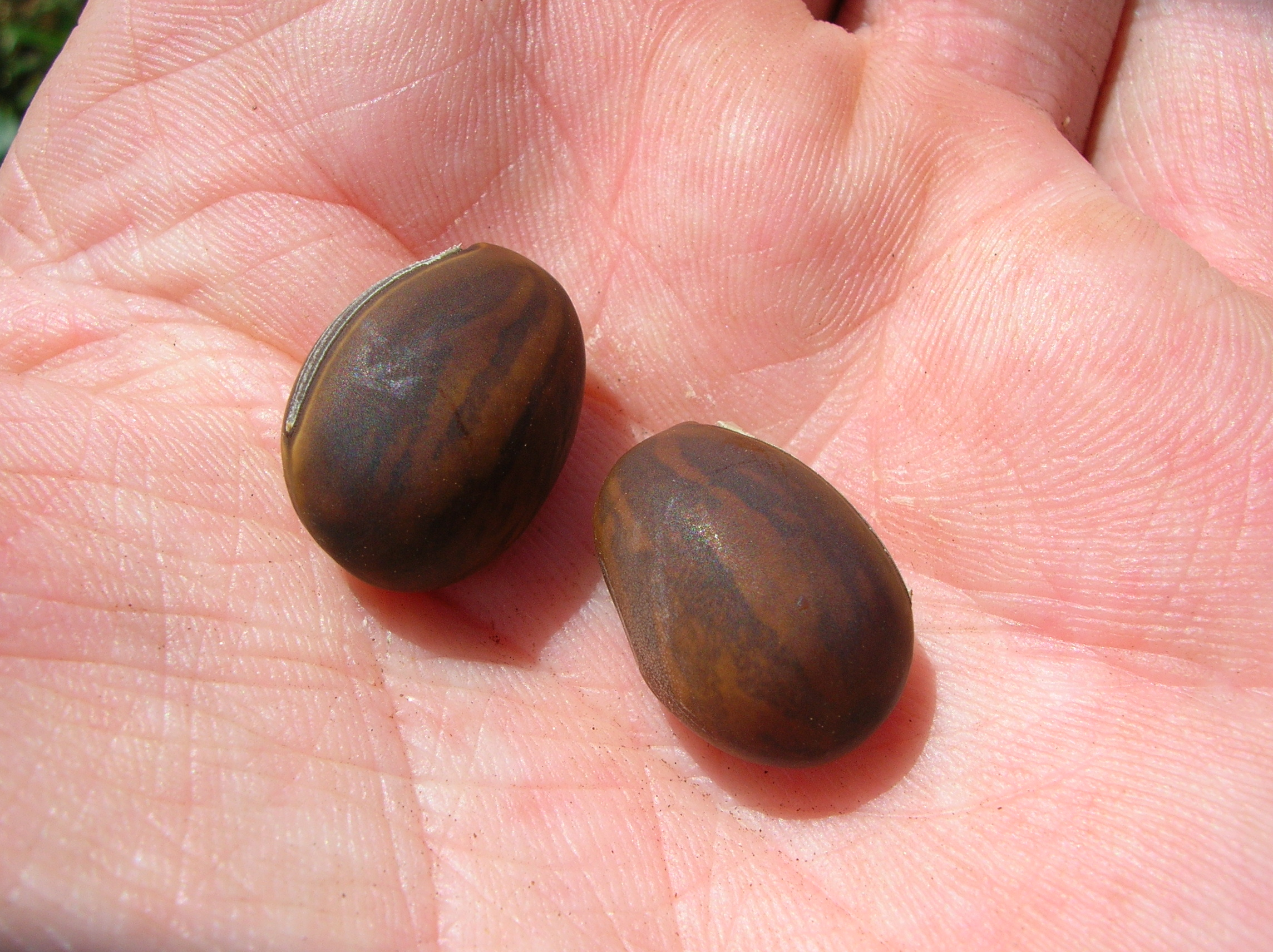 Canavalia cathartica (seeds). Location: Maui, Hawea Pt